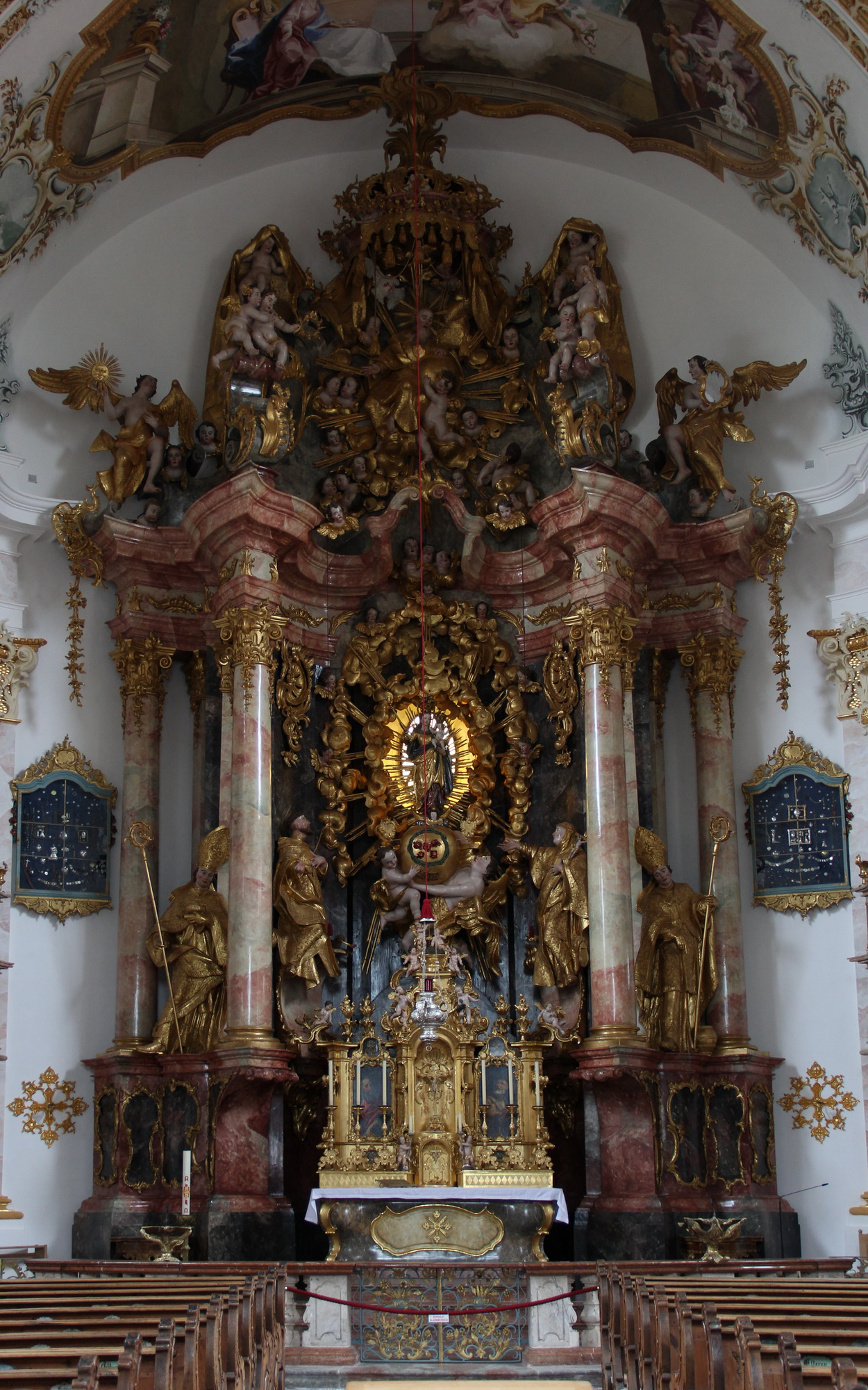 Church of St. Mary Native nameWallfahrtskirche Mariä HimmelfahrtLocationMarienberg, Upper Bavaria, GermanyCoordinates48° 08′ 32.66″ N, 12° 47′ 23.65″ E